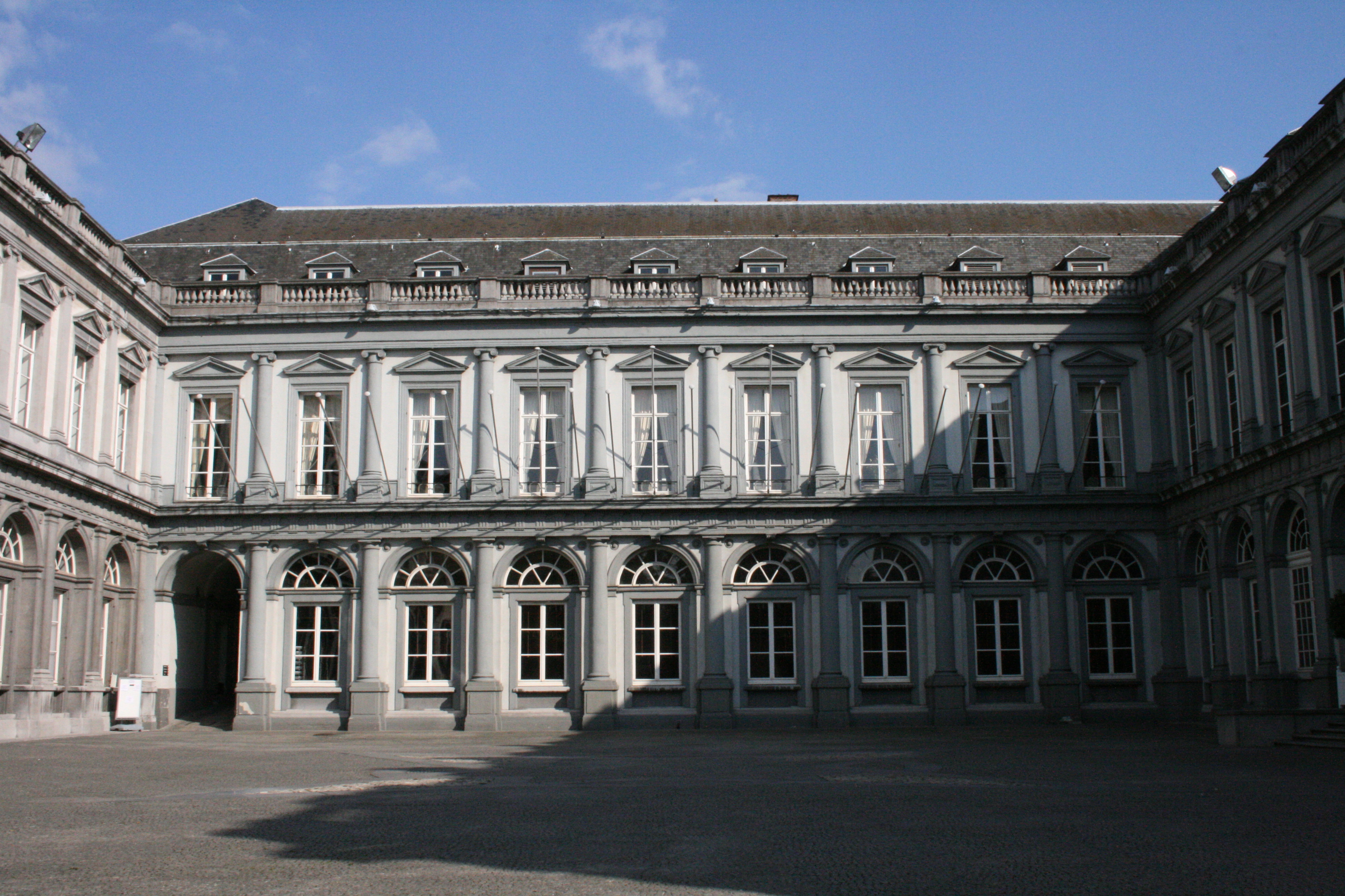 Egmont Palace, Brussels (Belgium)